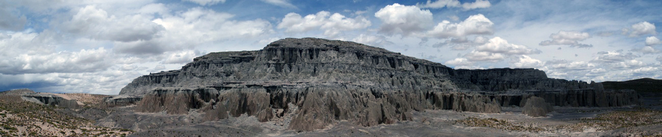 Bolivia